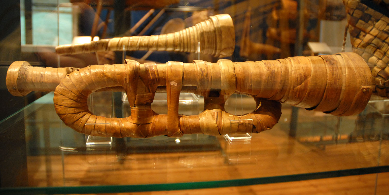 Birchbark shepherd's horns, in the National Museum of Finland. The museum presents the history of this country from prehistoric times until today. It includes an important ethnographic section entitled: "A territory and its people". Several rooms display the beliefs and ways of life, the traditional lifestyles, the expertise, of the Sami people, including costumes, traditional handicrafts, furniture.